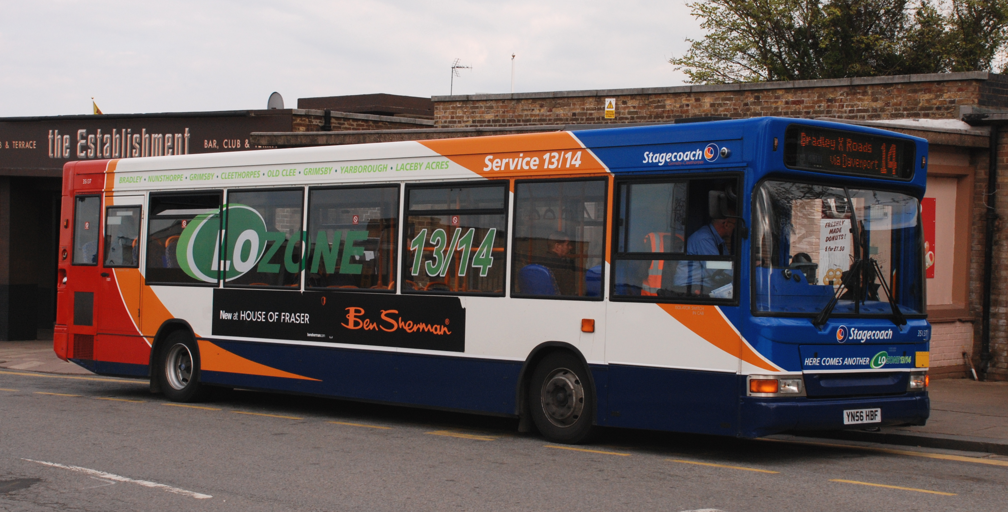 Stagecoach bus with LoZone branding in Cleethorpes, April 2010.